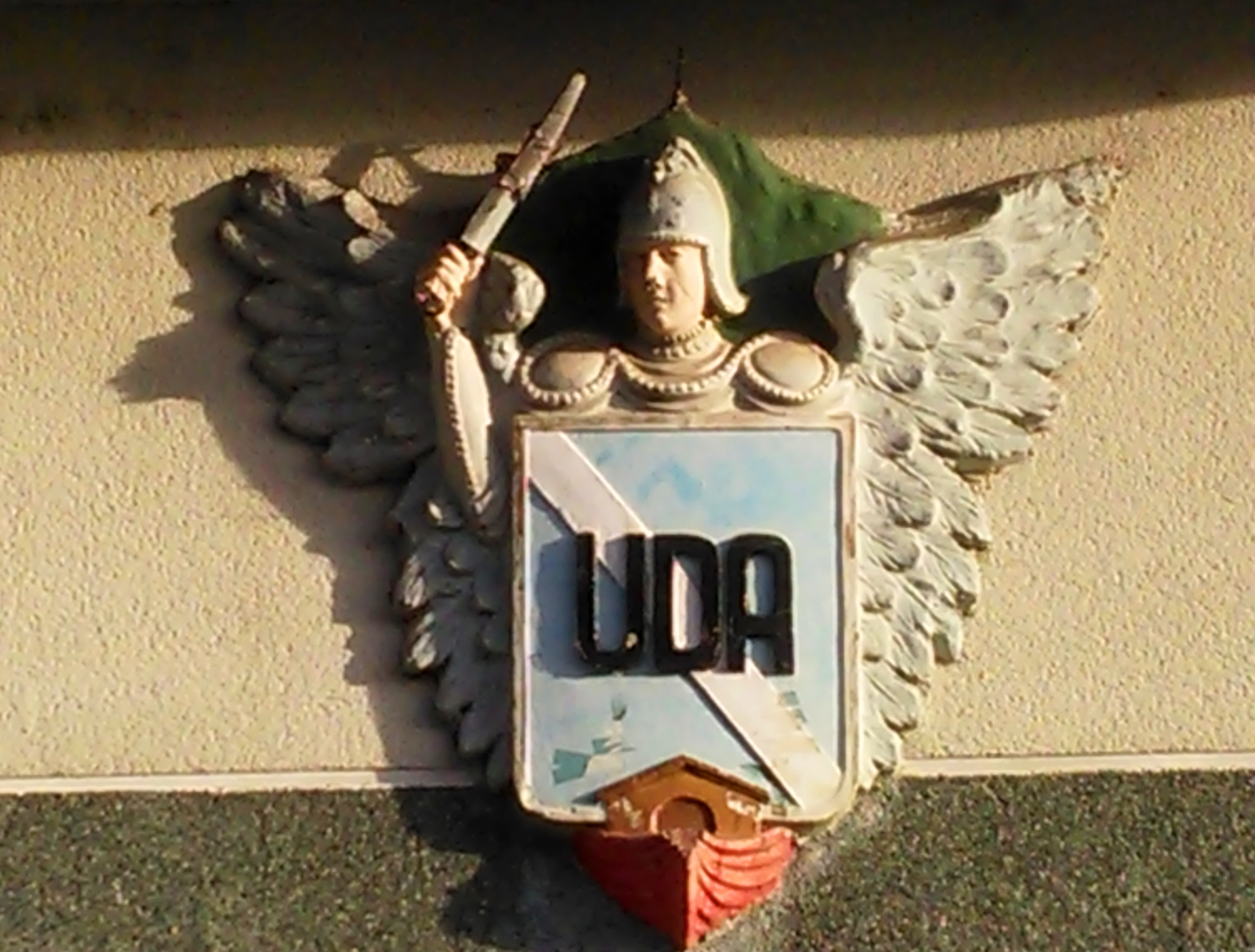 UD Aretxabaleta's crest